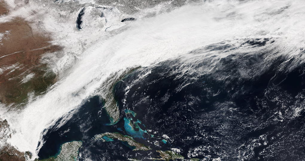 The elongated winter storm moving towards the East Coast of the United States early on March 5, 2015.